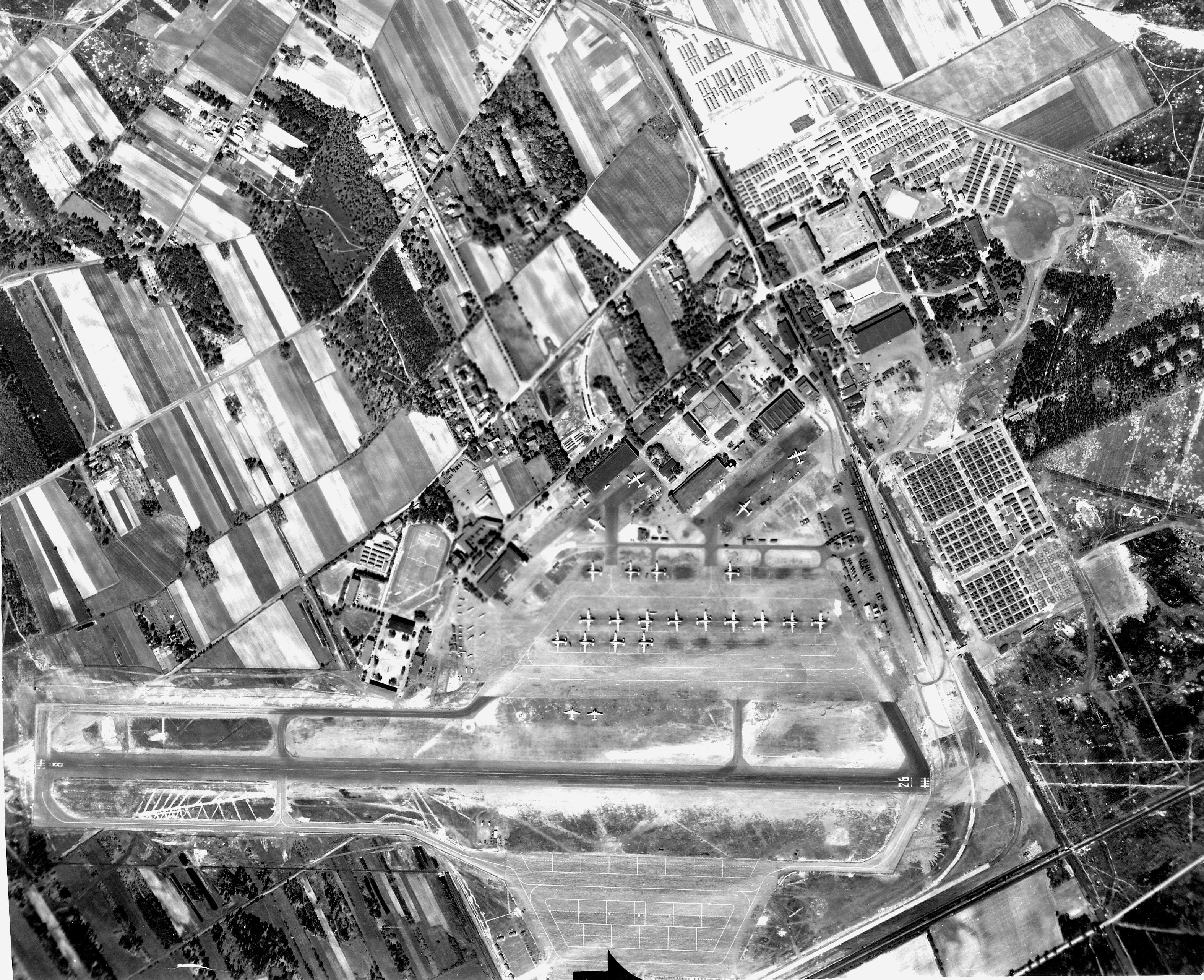 Celle Air Base during the Berlin Air Lift, 1949